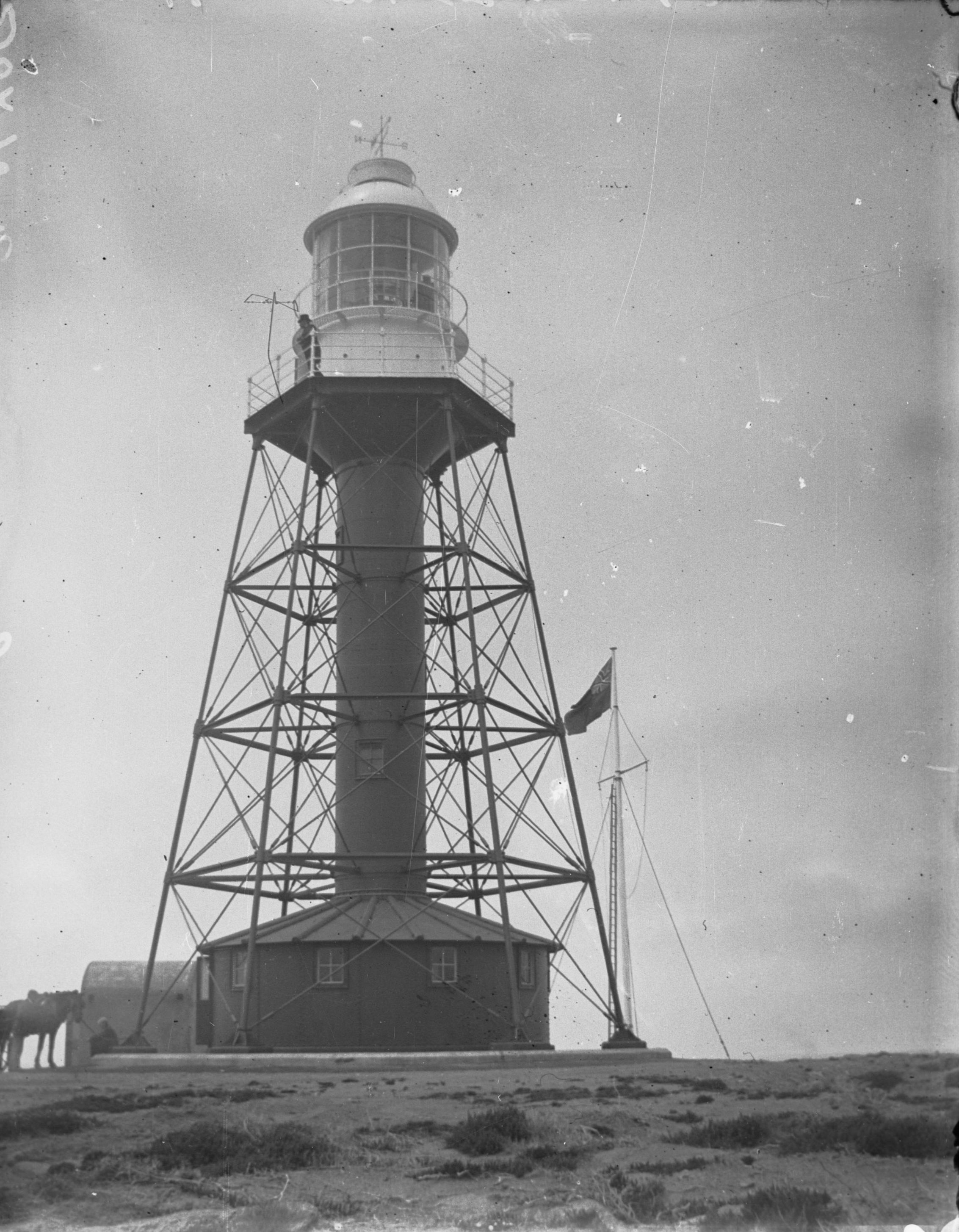 This lighthouse was originally placed at the mouth of the Port River on 1 January 1869. It was moved to South Neptune Island in 1901. The South Neptune Island Lighthouse was decommissioned in 1985 and relocated at Black Diamond Square in 1986 as part of the State's sesquicentenary celebrations.